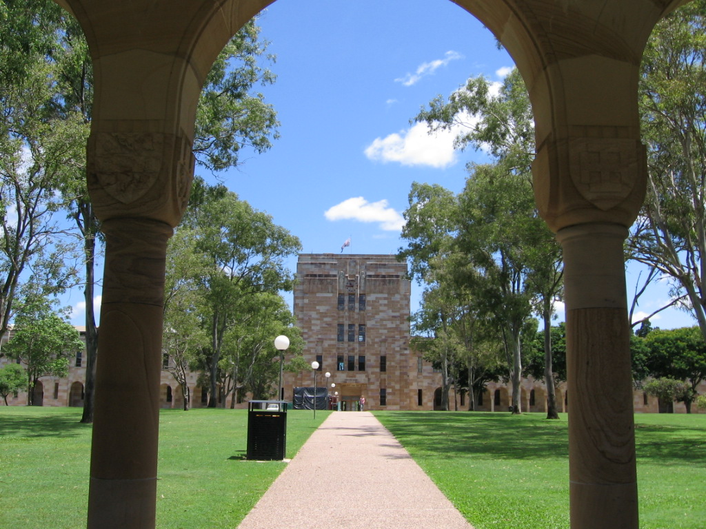 Picture of the University of Queensland St. Lucia Campus in Brisbane, Australia. Taken by Osamu Okada on Jan. 24th, 2006. Category:Images of Brisbane